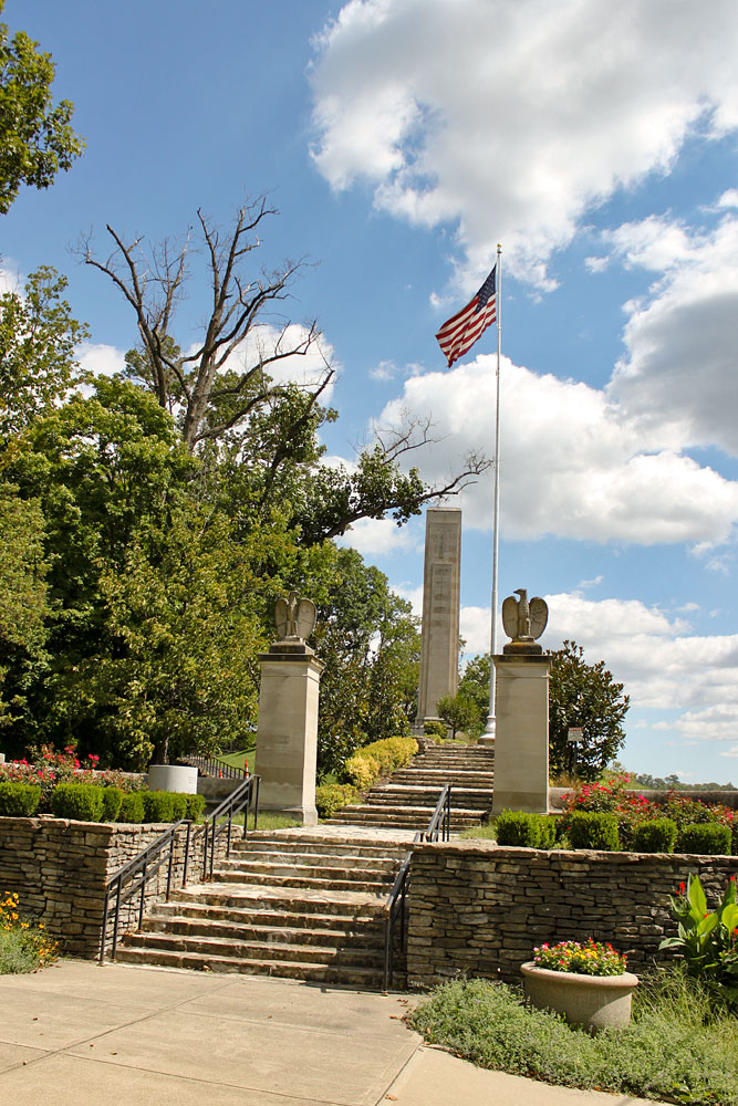 William Henry Harrison Tomb State MemorialThe stairs leading to the monument and tomb of President William Henry Harrison.